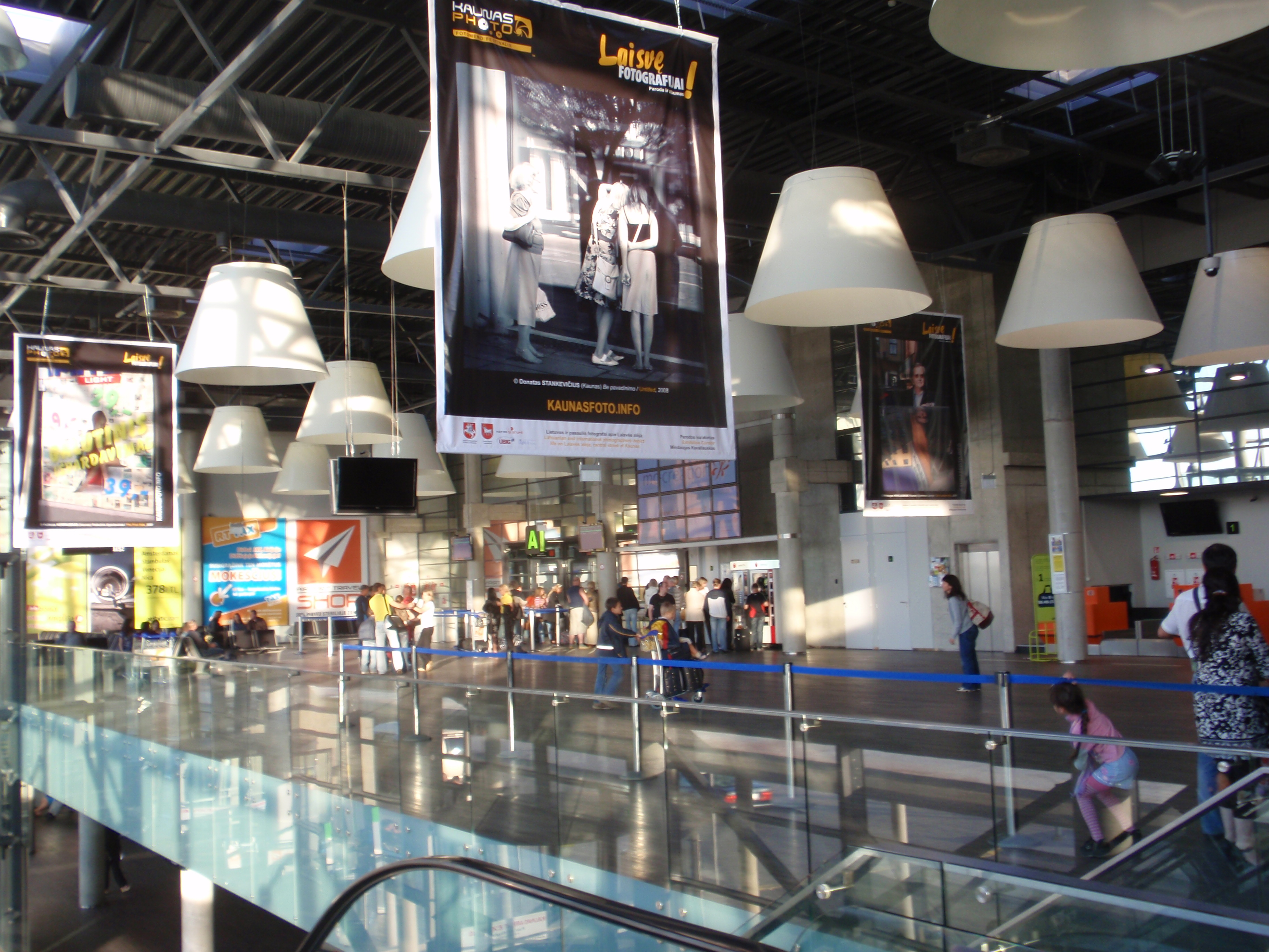 Kaunas airport, terminal A, departure area